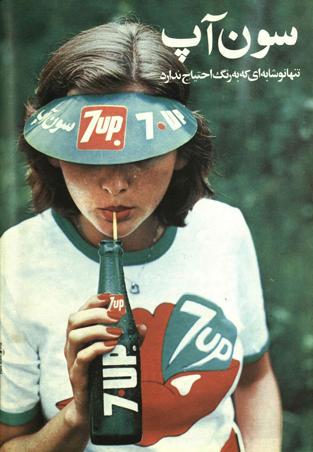 7 Up advertising - Sepid-o-Siyah Magazine (White & Black), issue 1095, 31 January 1979 (in persian)